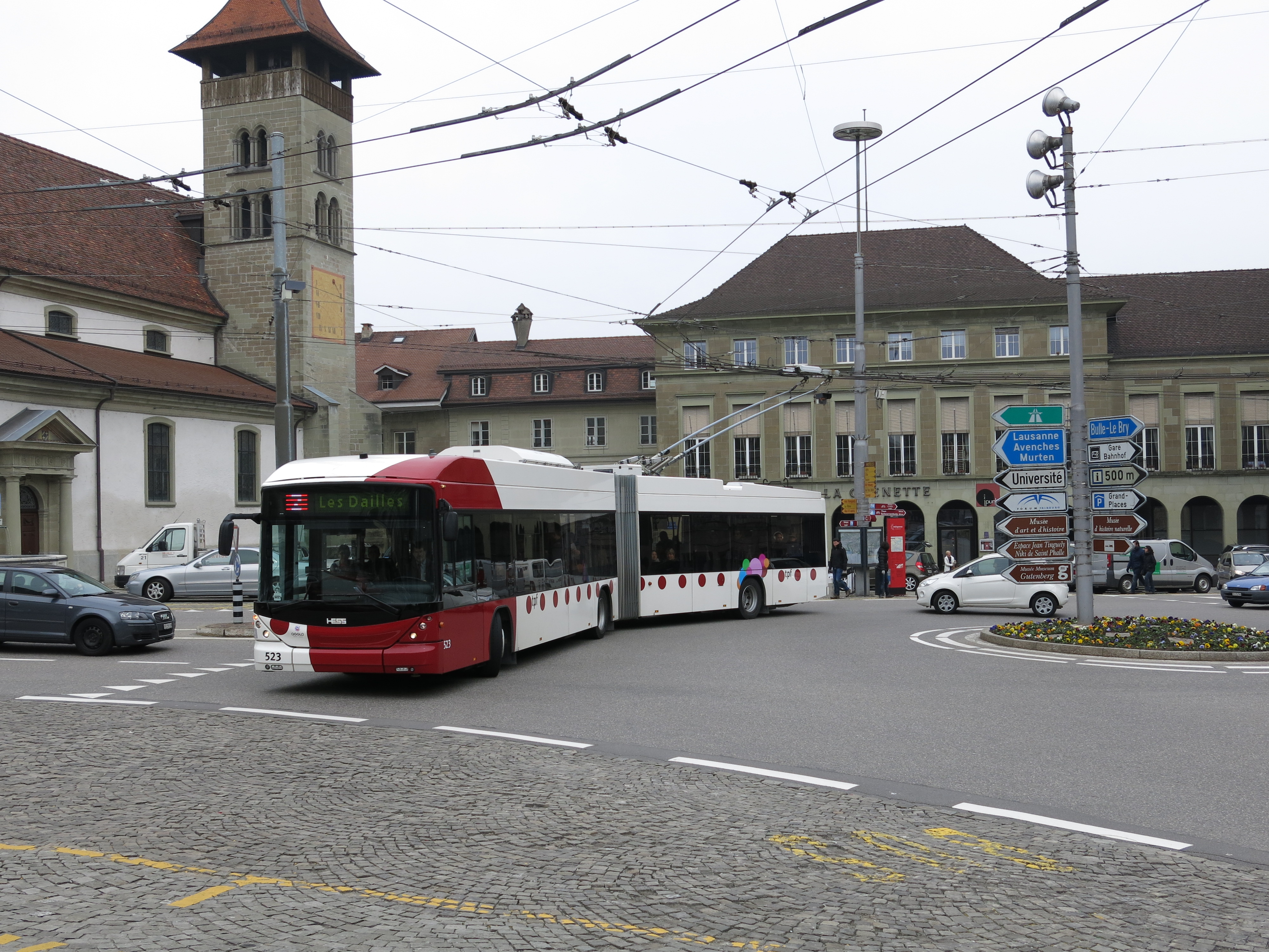 Fribourg, Switzerland